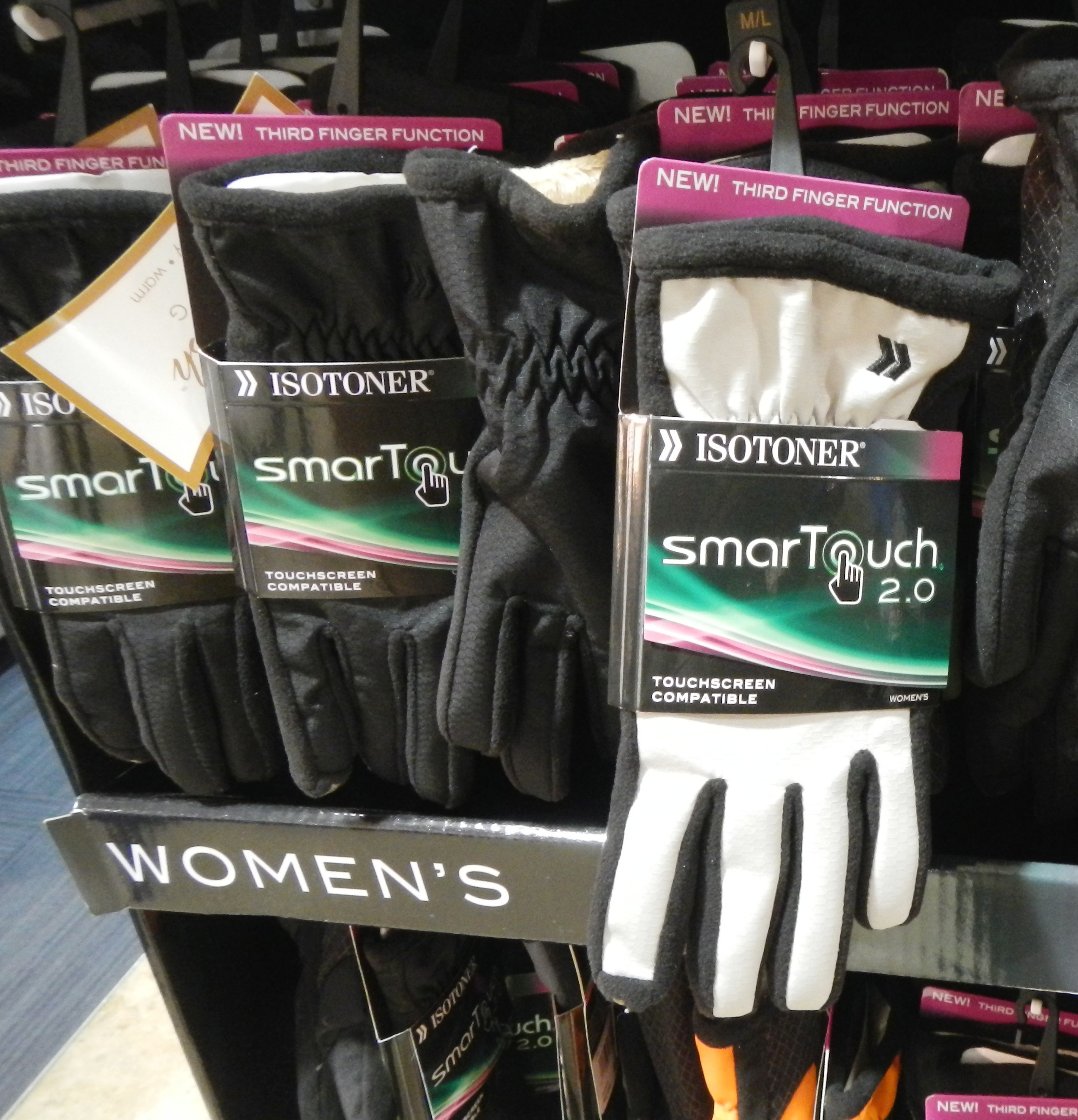 Gloves for capacitive touchscreen for sale at Best Buy.